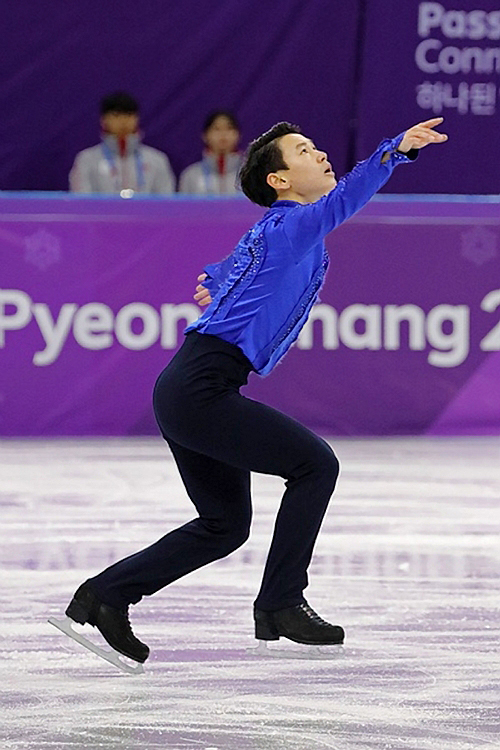 Denis Ten at the 2018 Winter Olympics